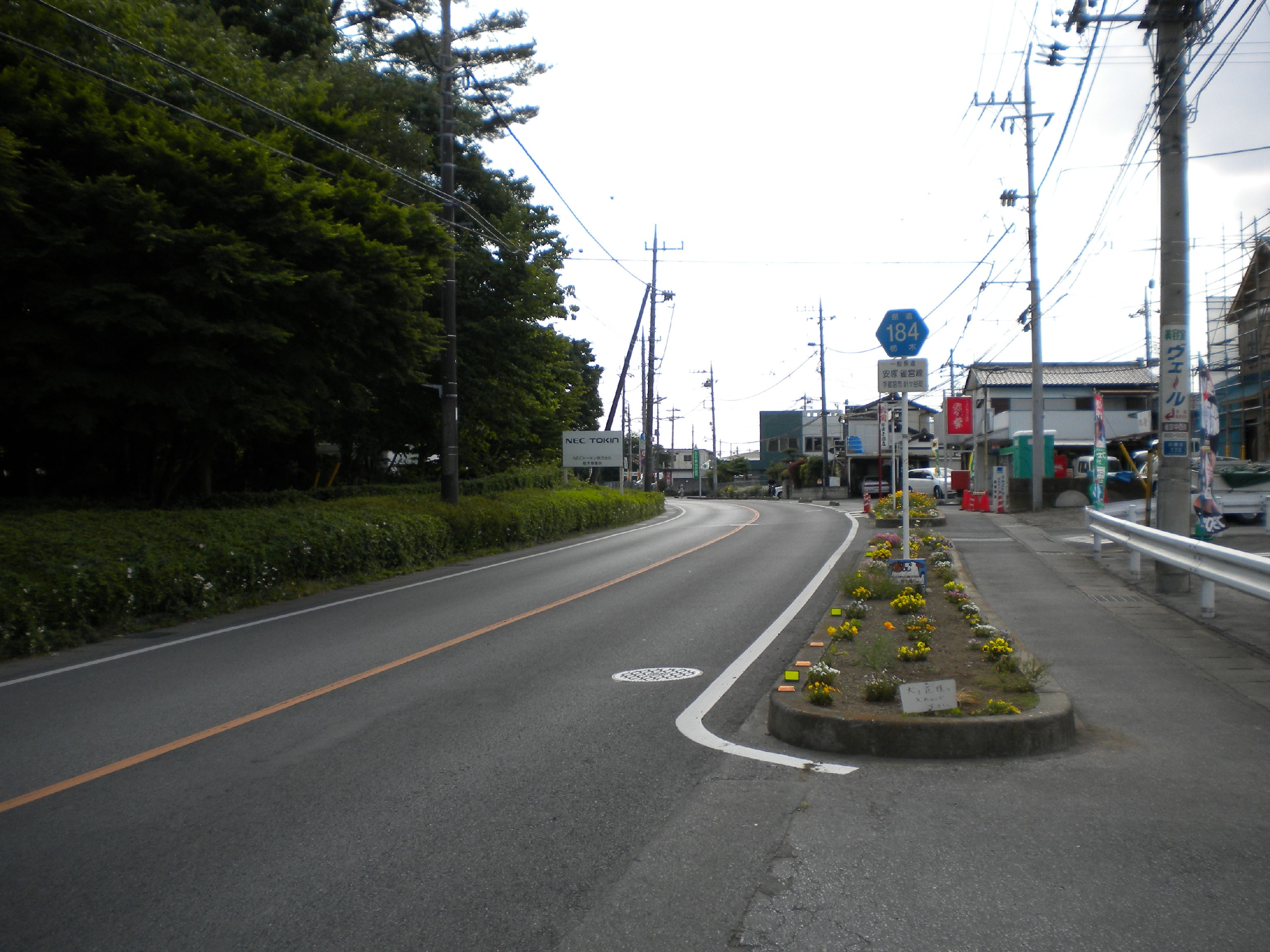 The Tochigi Prefectural Road Route 184 in Harigayacho, Utsunomiya City